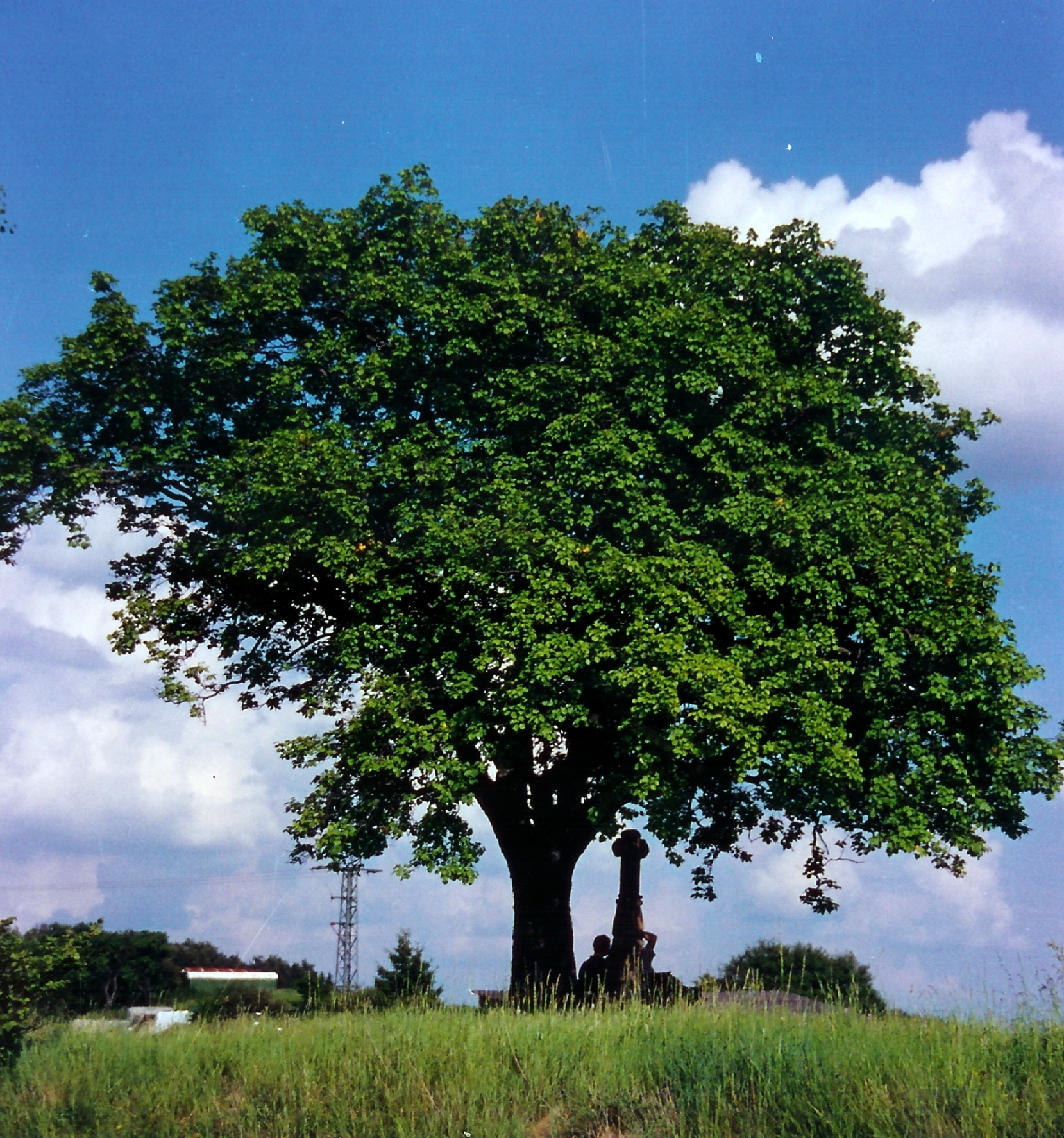 The famous Sorbus torminalis solitaire tree in Ripsdorf, a village near Blankenheim (Ahr), Kreis Euskirchen, North Rhine-Westphalia, Germany.